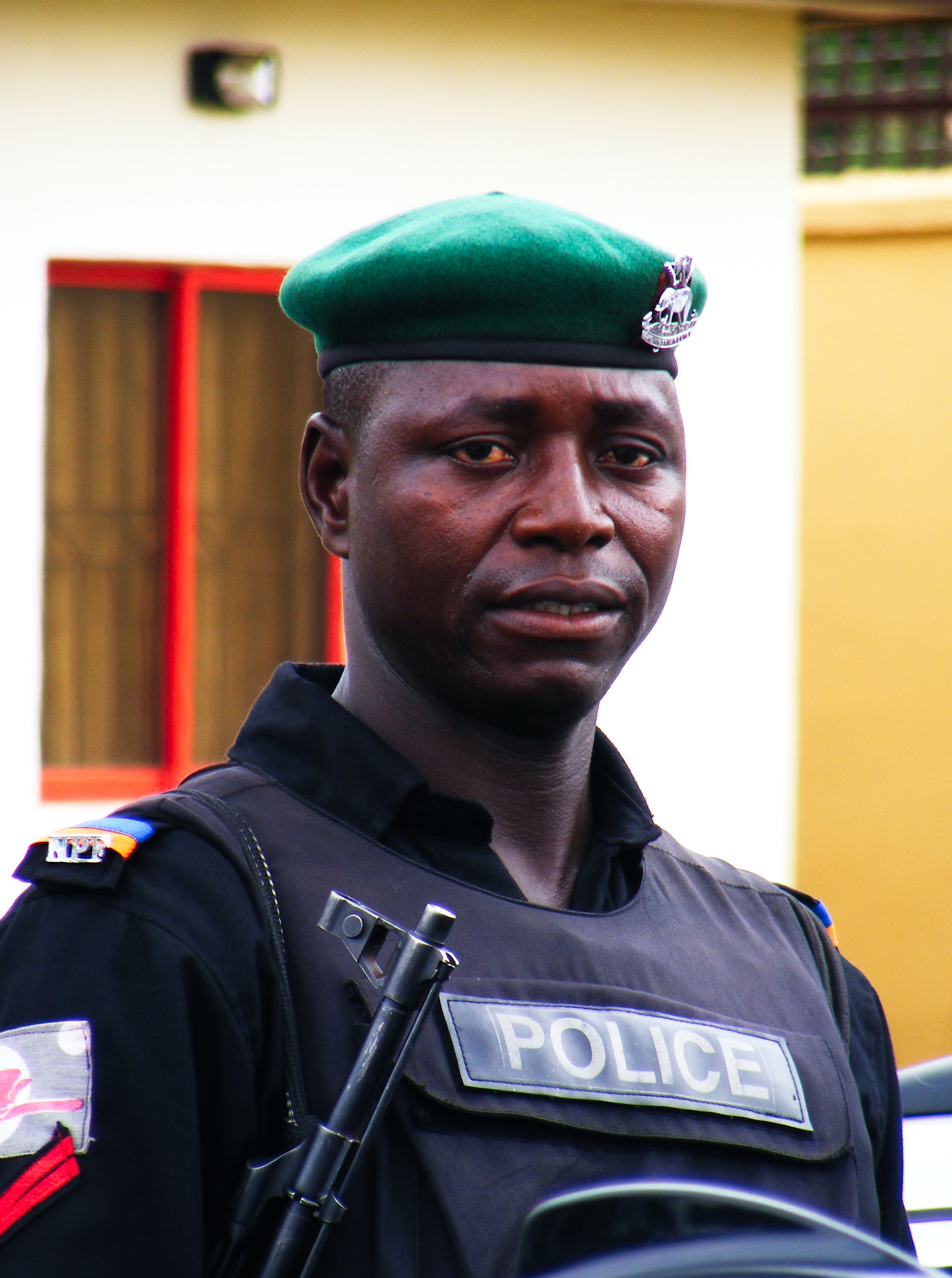 This is an image of "African people at work" from Nigeria